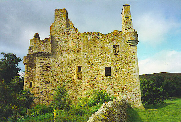 Glenbuchat Castle, Ruined Tower House.